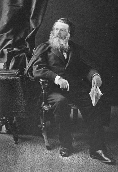 Image of publisher/poet James Thomas Fields (1817-1882) seated in a chair. Original caption reads: "Fields, the Man of Books and Friendships." Date not listed but, presumably, circa 1870s?